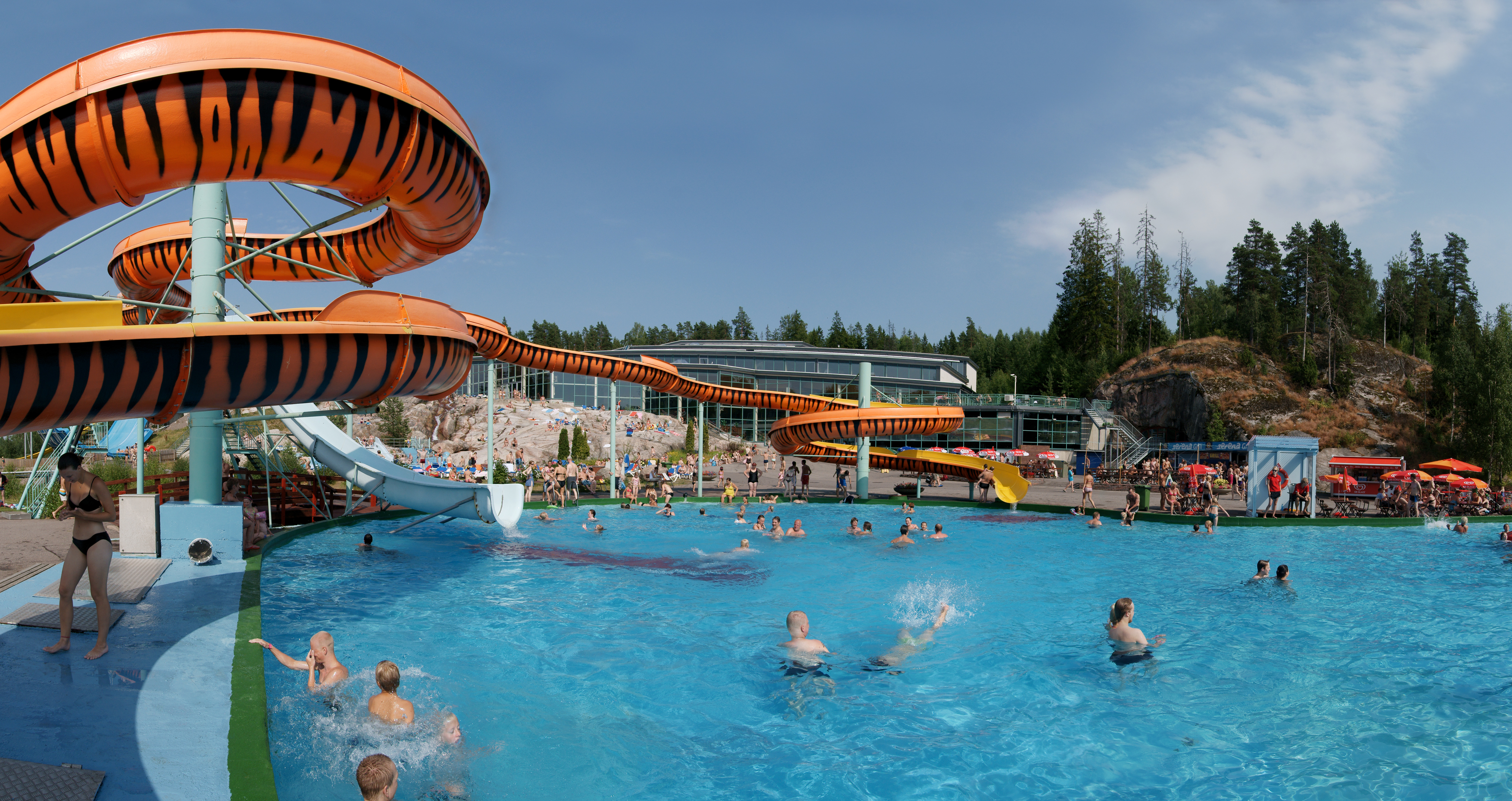 Water slides and outdoor swimming pool in water park Serena.